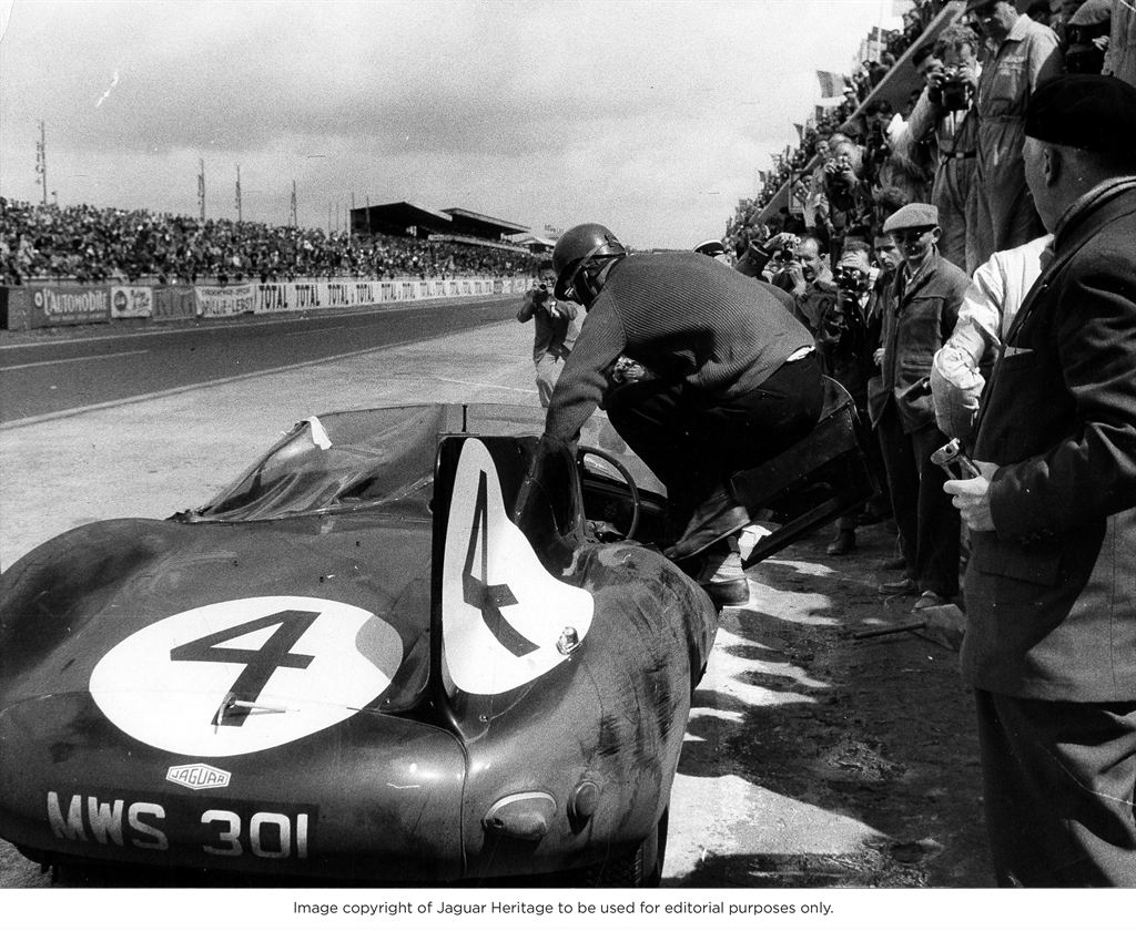 Le Mans 1956, winning D-type